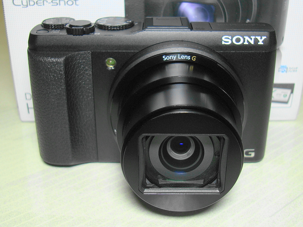 Sony Cyber-shot DSC-HX50V